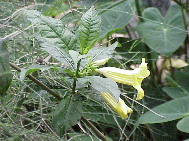 Species: Allomanda schottii Family: Apocynaceae Image No. 2